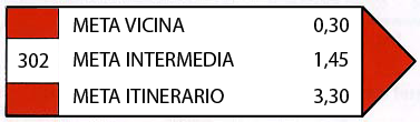 vertical info panel for mountain routes (in Italian)